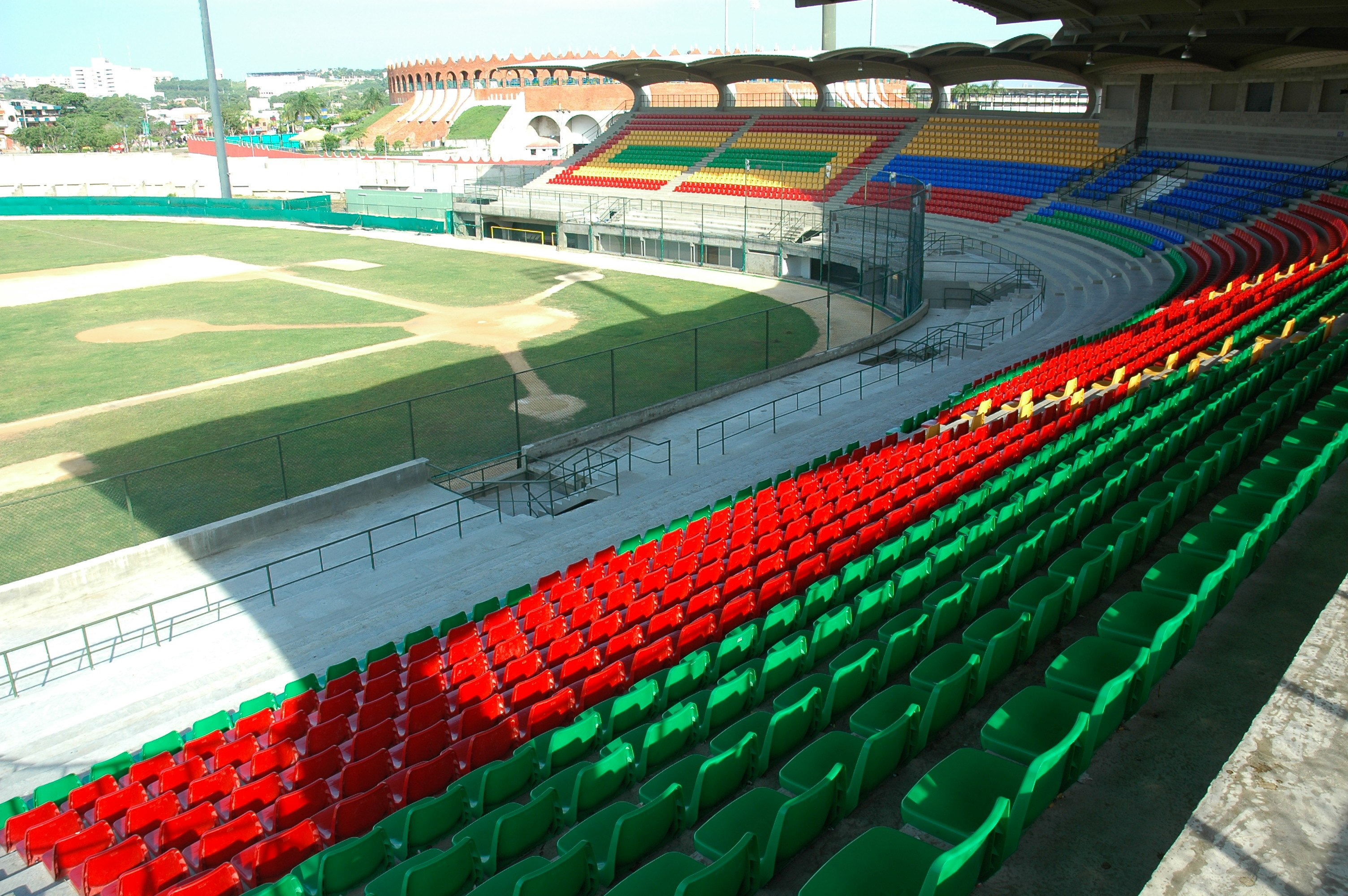 Cartagena, Colombia, Once de Noviembre Stadium